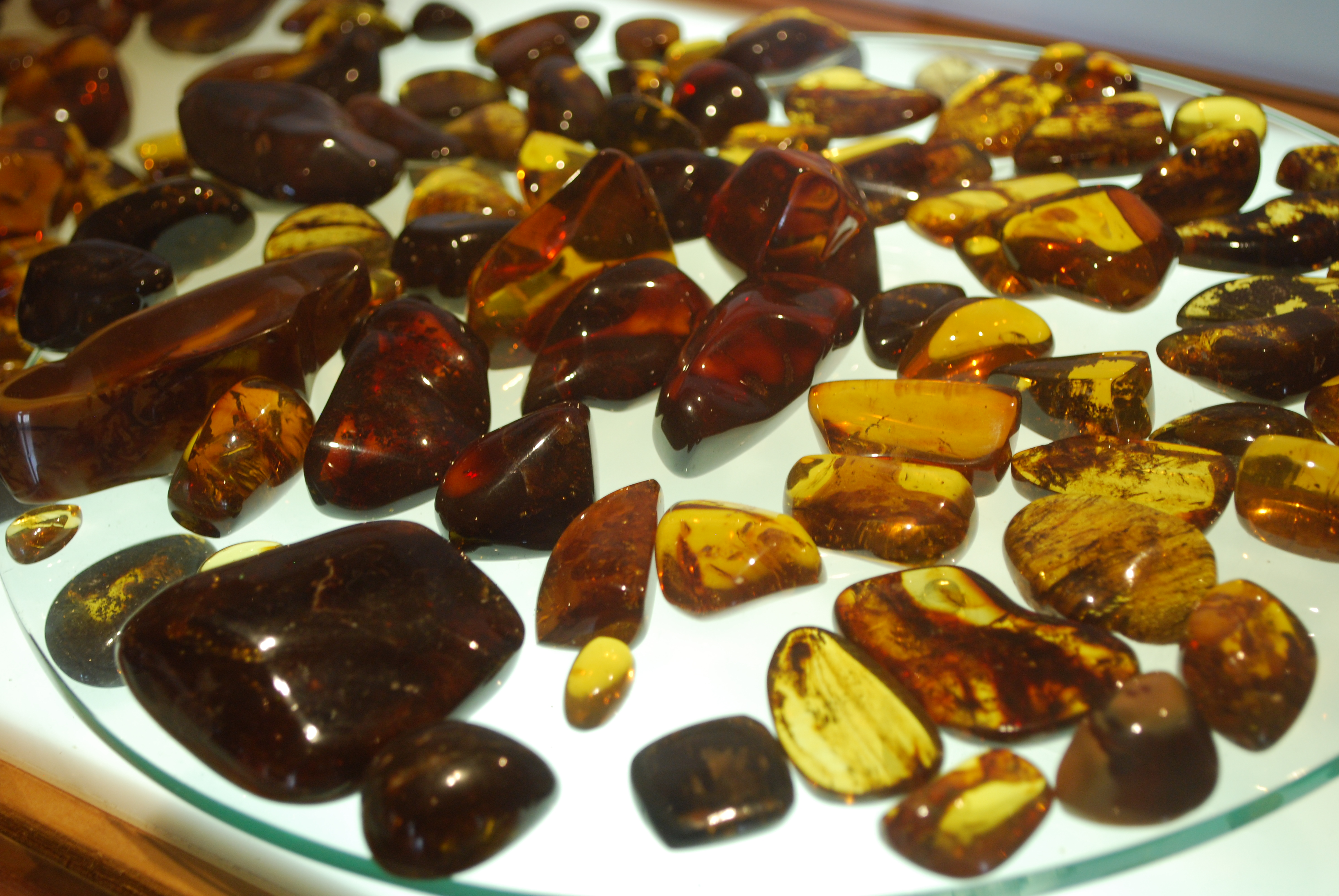 Polished Amber stones from Simijovel at the Museum of Amber in San Cristobal de las Casas, Chiapas, Mexico